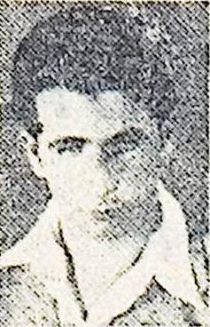 Albert Gruden-Blisk (1923-1982), Slovene partisan